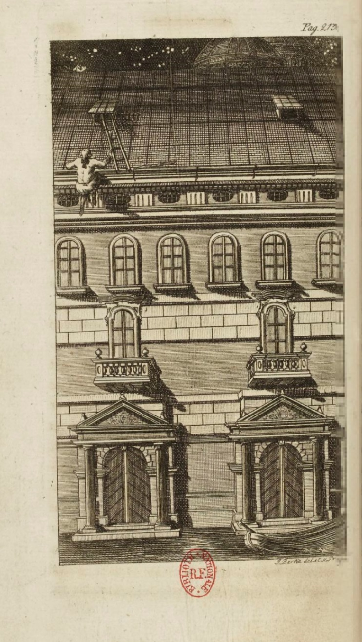 Illustration in Casanova's Histoire de ma fuite des prisons de la République de Venise qu'on appelle Les Plombs (Story of my Flight), 1787. From the German edition, 1788.